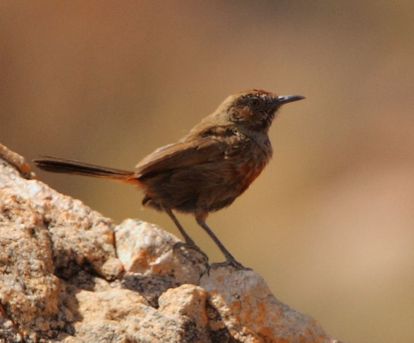 A Kopje Warbler near Kamassies, Kamiesberg, Northern Cape, South Africa.